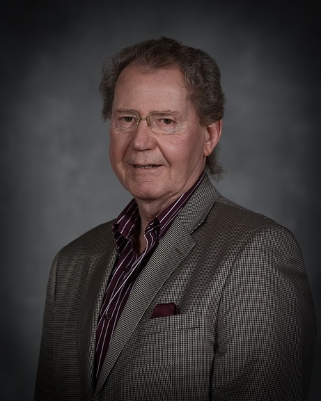 Minister of Agriculture , Minister of Indian Affairs and Northern Development , Minister of National Defence , Minister of Energy, Mines and Resources and Minister of Labour in the Progressive Conservative government of Brian Mulroney. Treaty Commissioner for the Province of Saskatchewan.